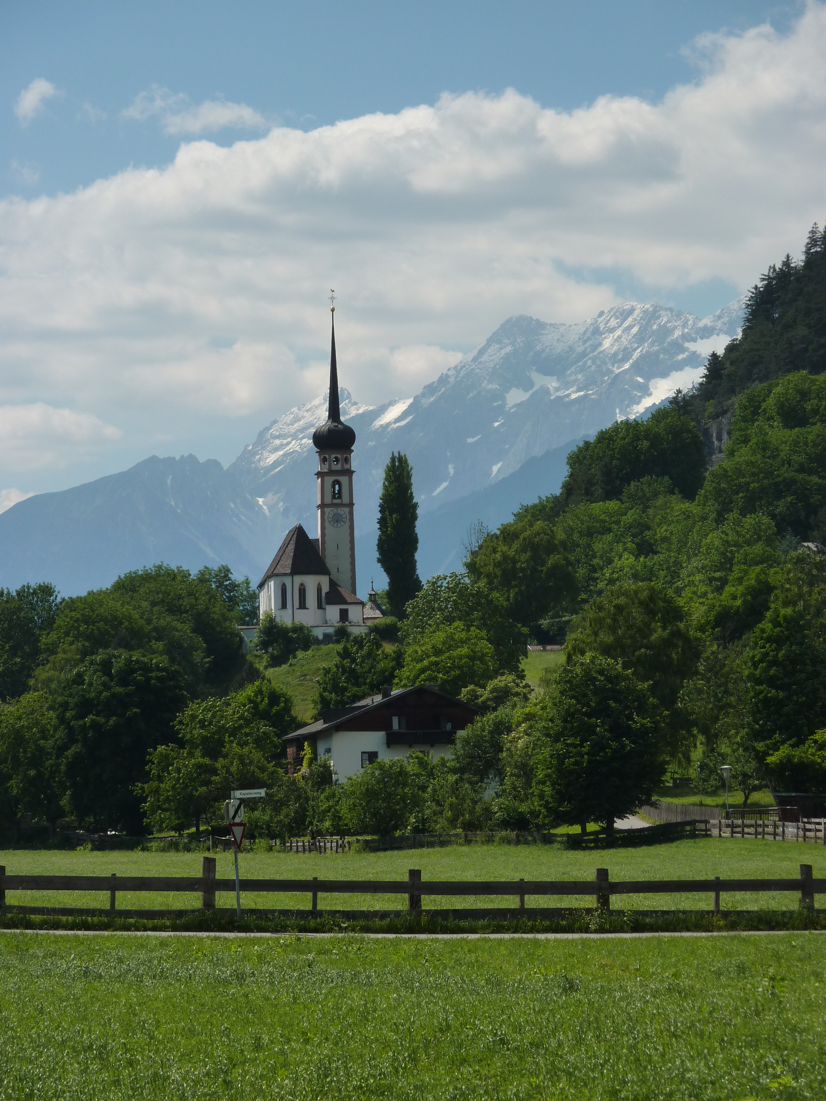 Church and Alpine Scenery near Innsbruck